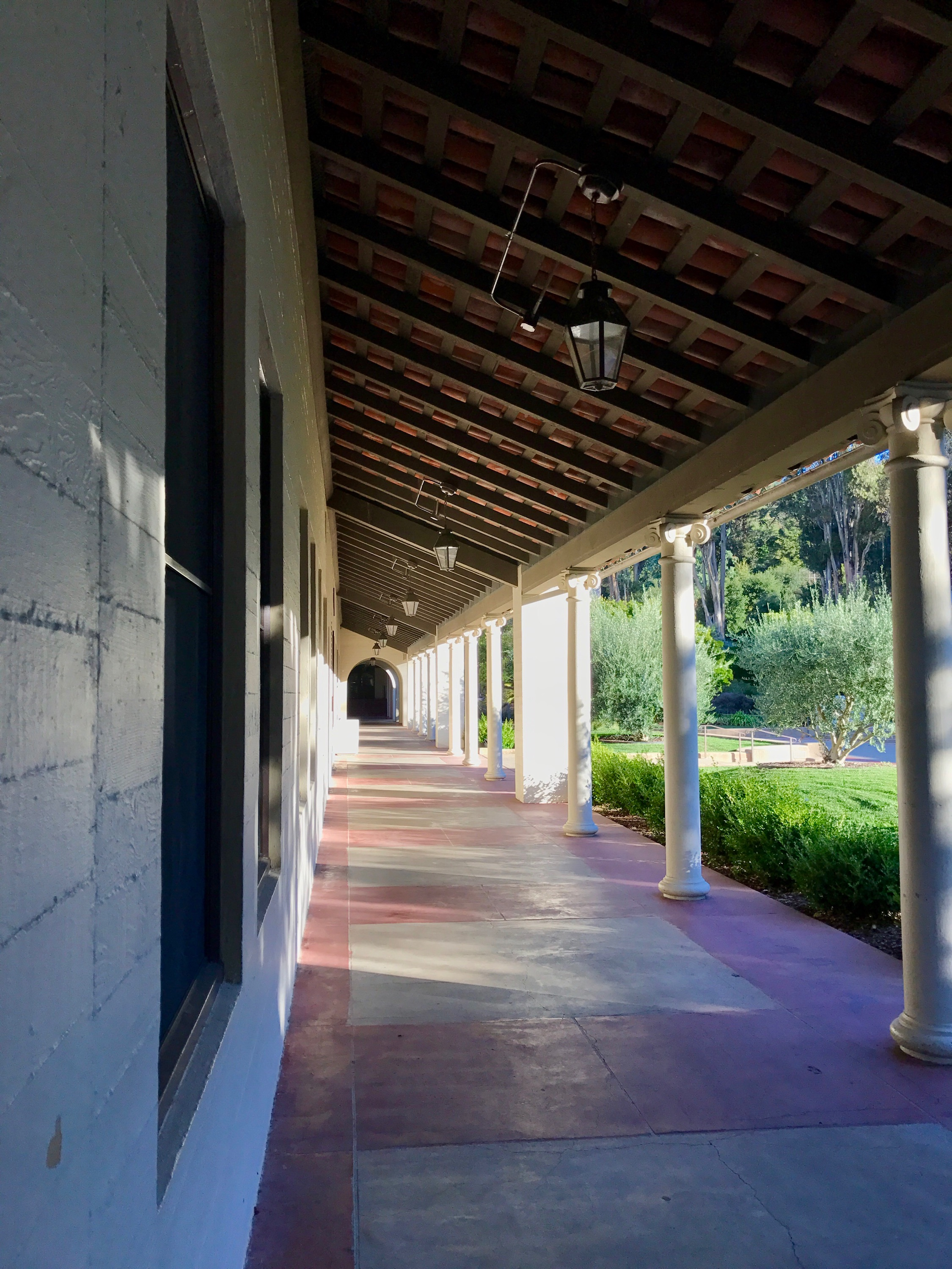 Clark Kerr